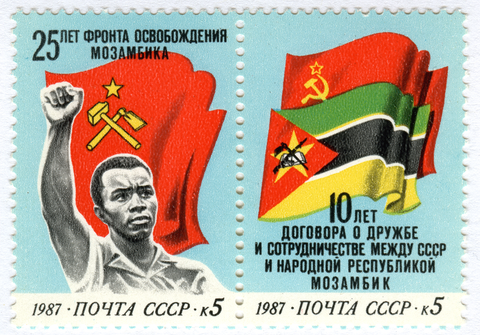 1987 USSR stamp commemorating 25 years of the founding of FRELIMO and 10 years of Mozambique-USSR relations